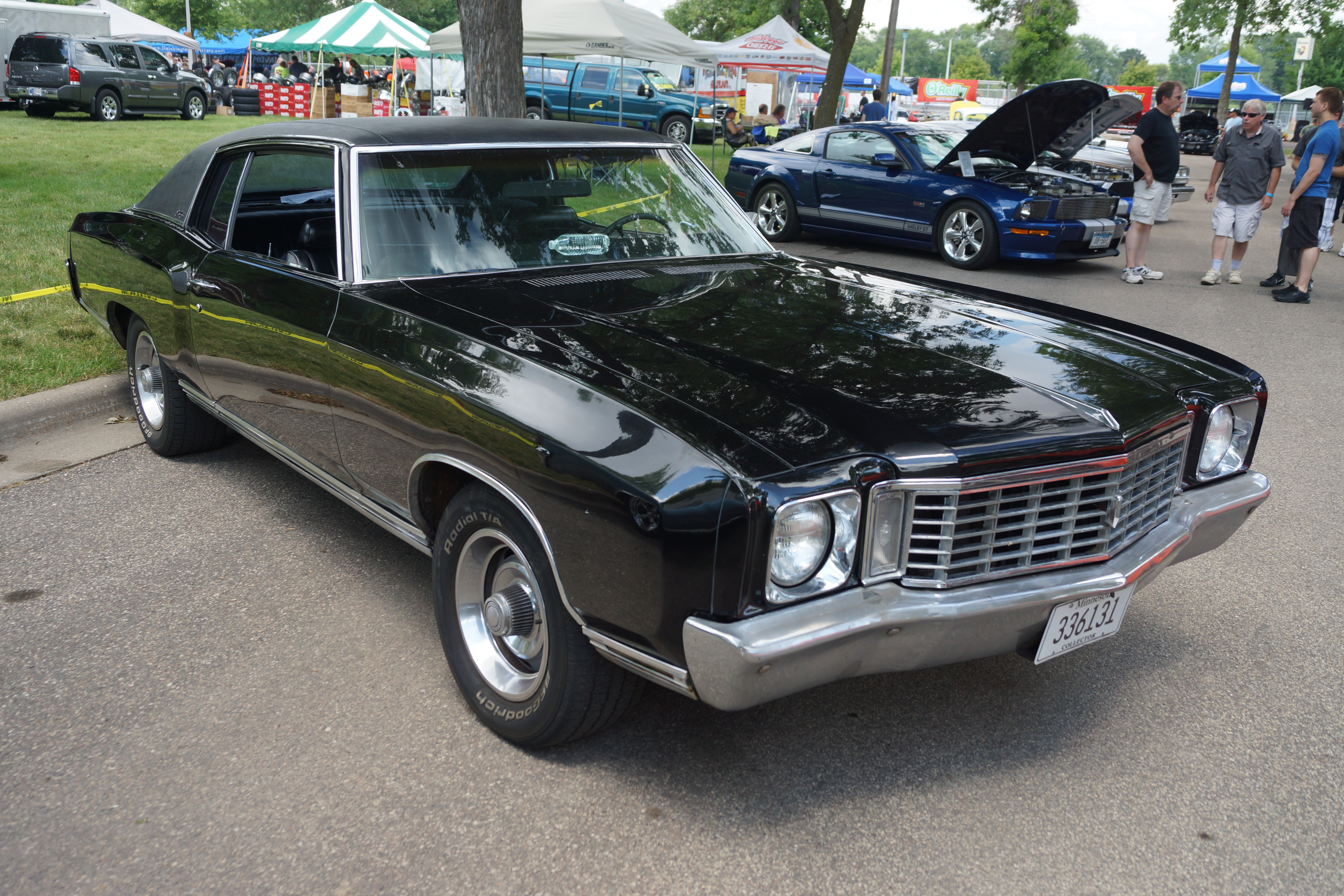 Click here for more car pictures at my Flickr site. O'Reilly Auto Parts Street Machine Summer Nationals Minnesota State Fairgrounds St. Paul, Minnesota July 2016